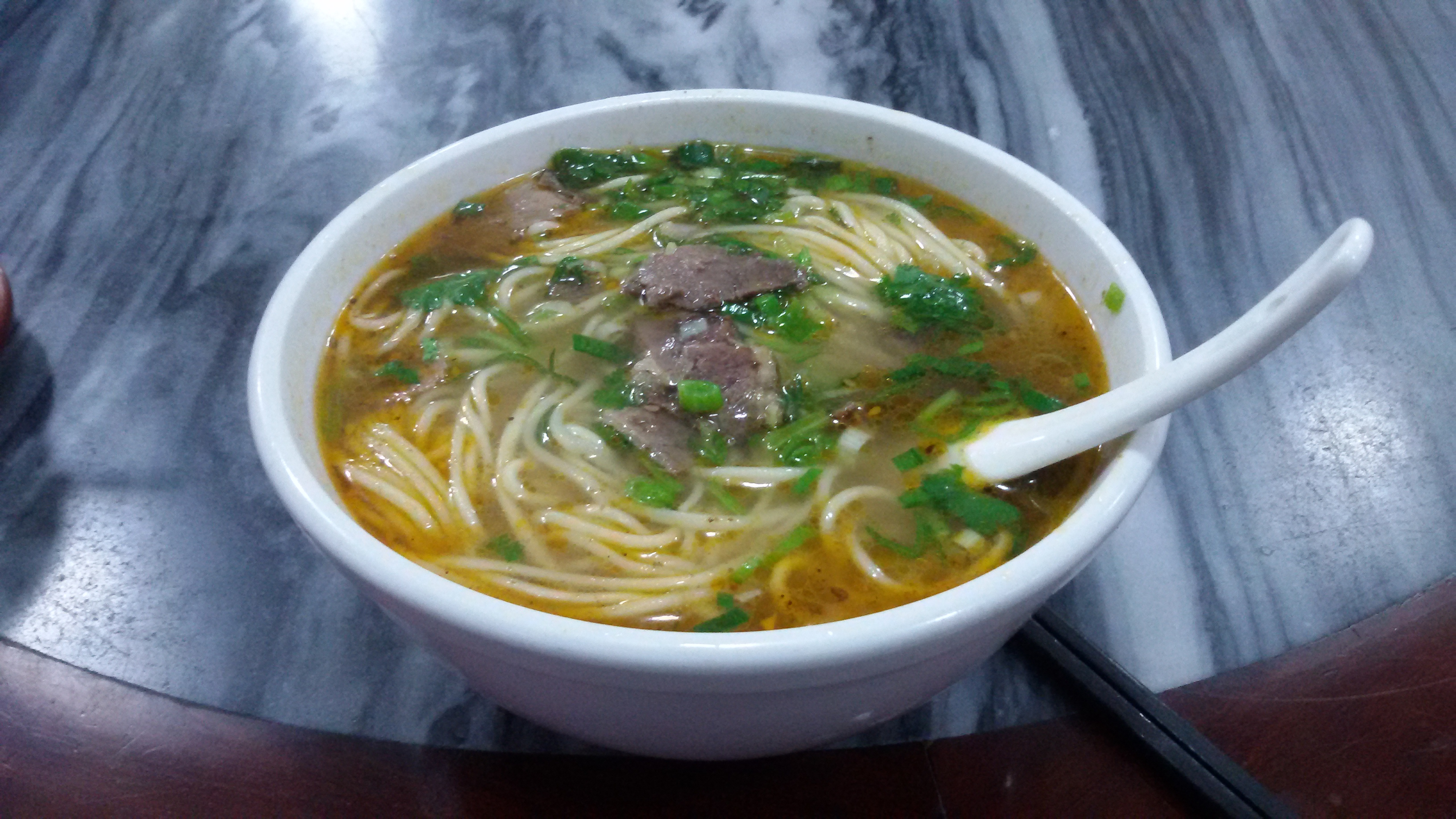 Lanzhou lamian